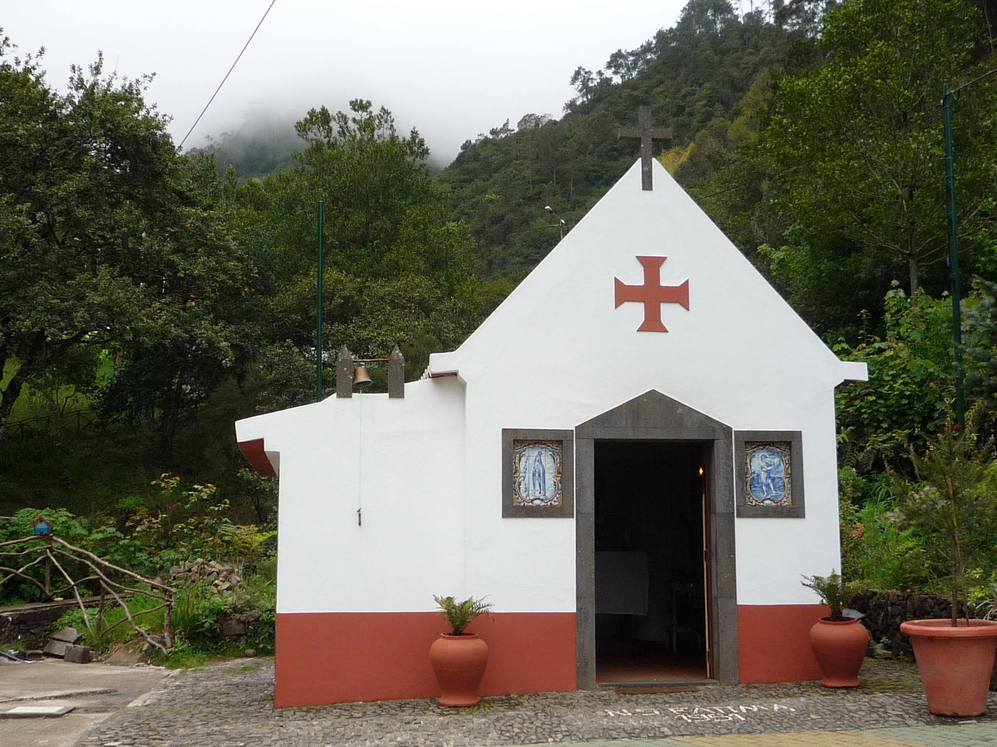 The small chapel to Our Lady of Fátima in Ribeiro Frio, São Roque do Faial, Madeira. More images.